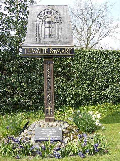 Thwaite St Mary village sign The sign depicts the Norman door of the church. Winner of the Best Kept Village competition 1977, and still a contender.